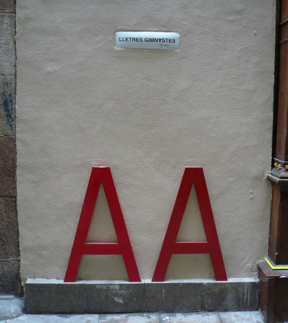 "Lletres Gimnastes", by Joan Brossa